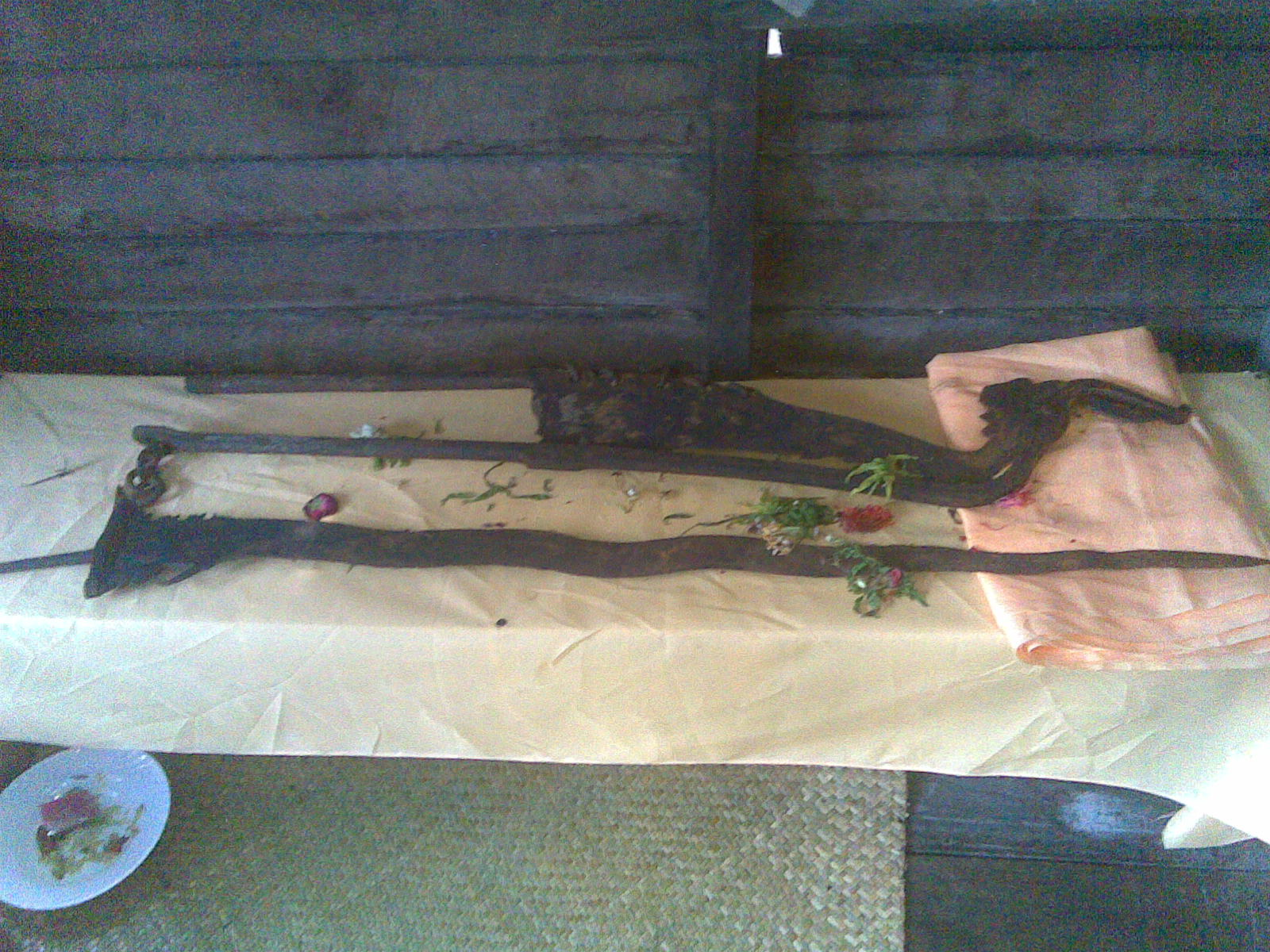 Keris Mahsuri